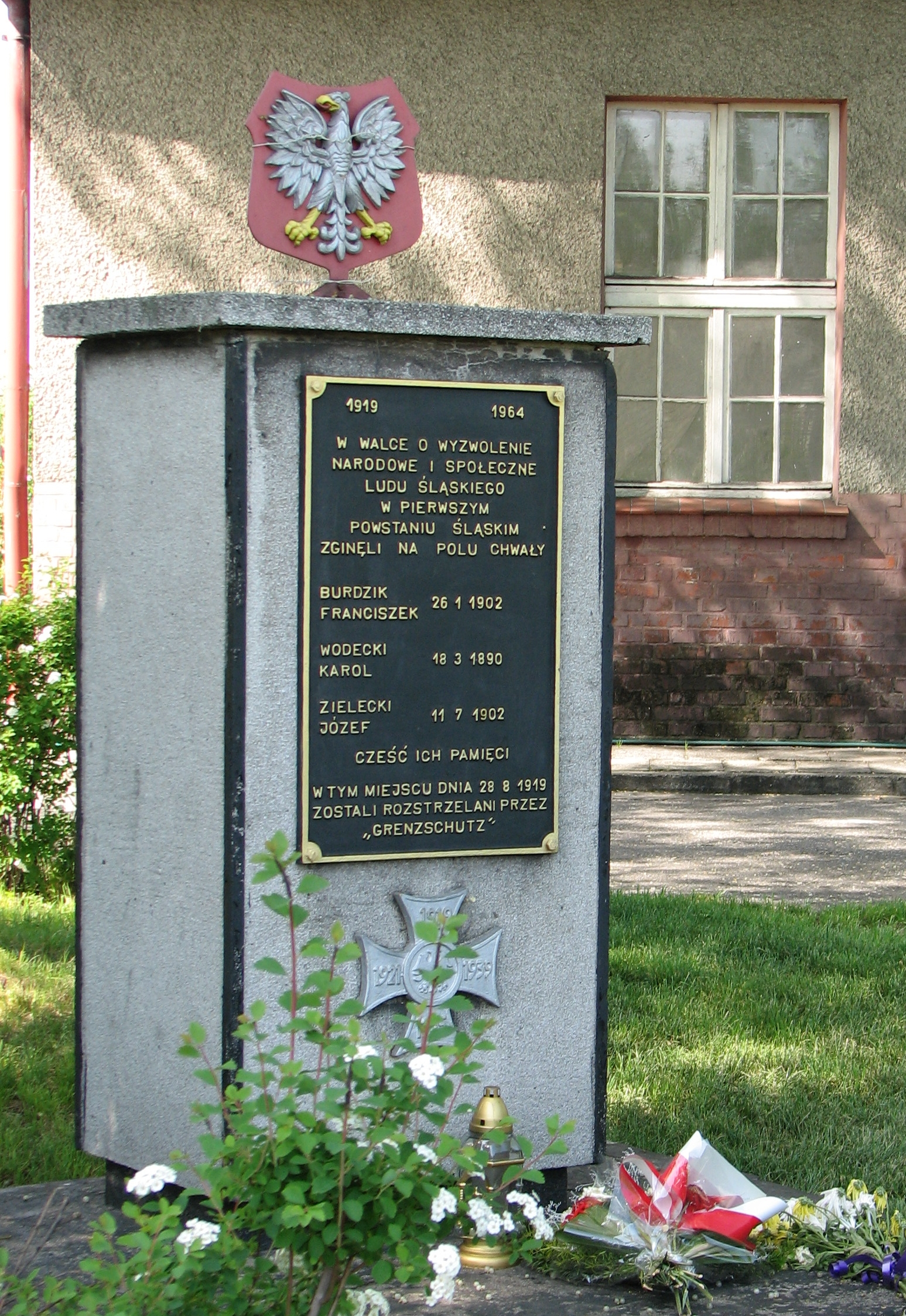 Memorial to Polish insurgents in Godów